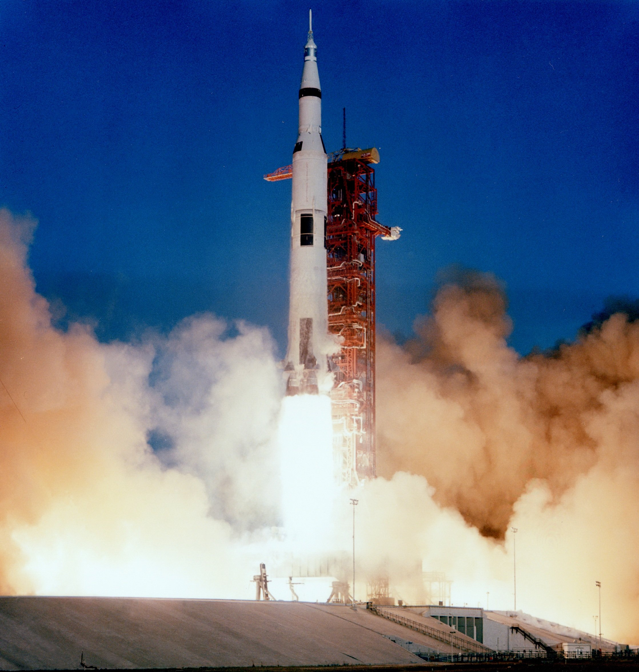 Apollo 8 liftoff